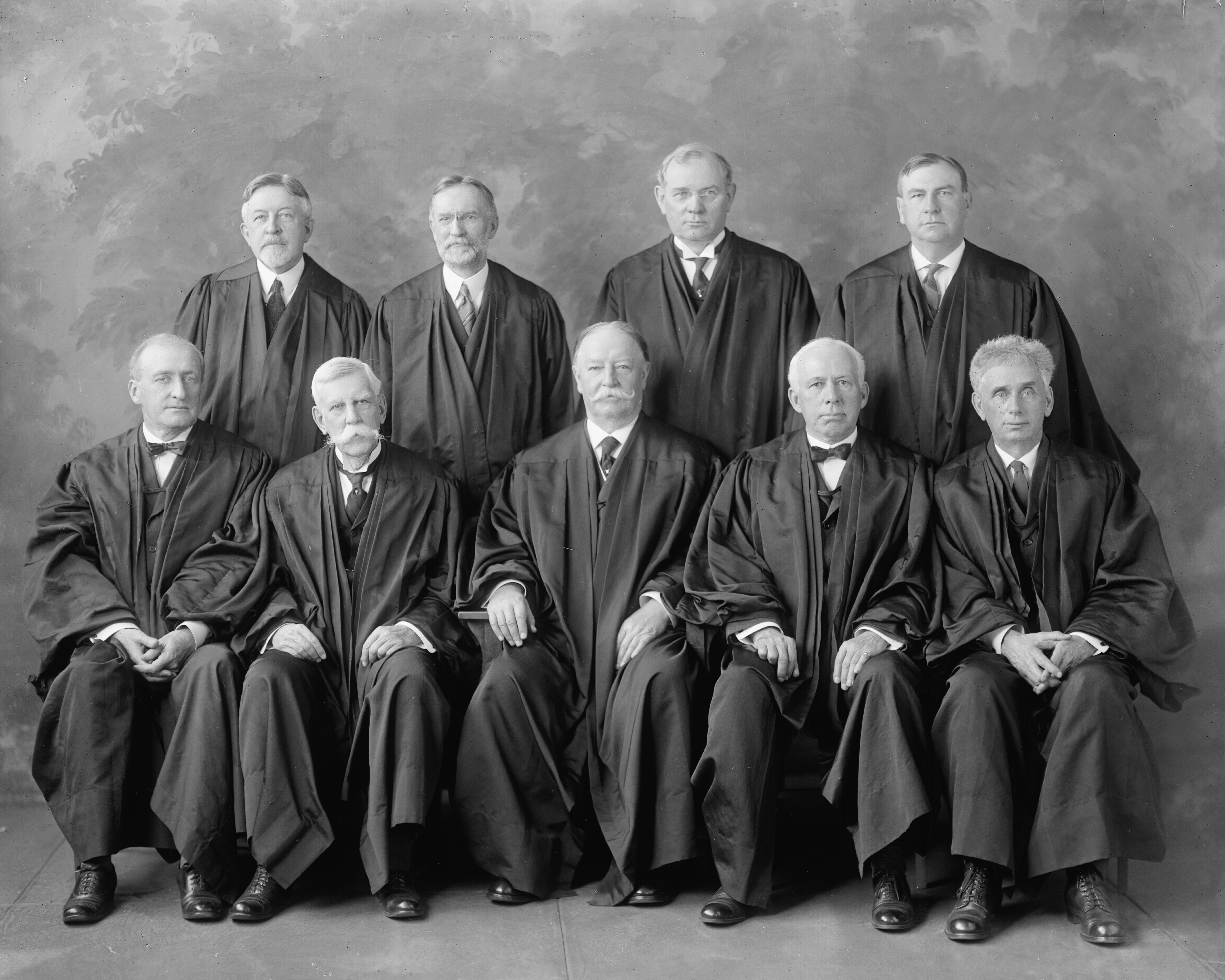 1925 photo of the justices serving in the United States Supreme CourtStanding (left to right) - Edward Sanford, George Sutherland, Pierce Butler, Harlan Fiske StoneSeated (left to right) - James Clark McReynolds, Oliver Wendell Holmes, Jr.,William Howard Taft, Willis Van Devanter, Louis Brandeis